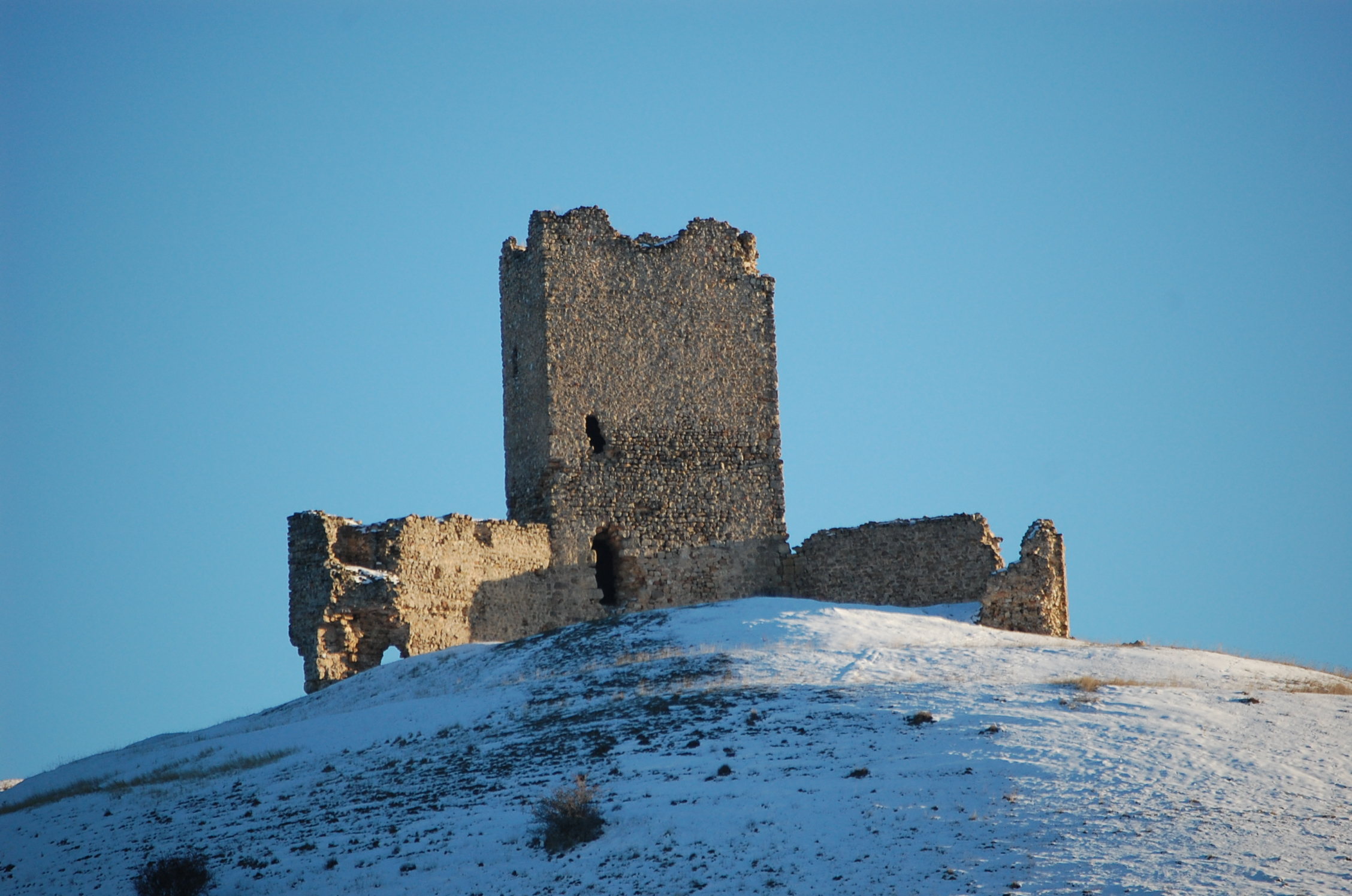 Castle in La Torresaviñan, province of Guadalajara, Spain.